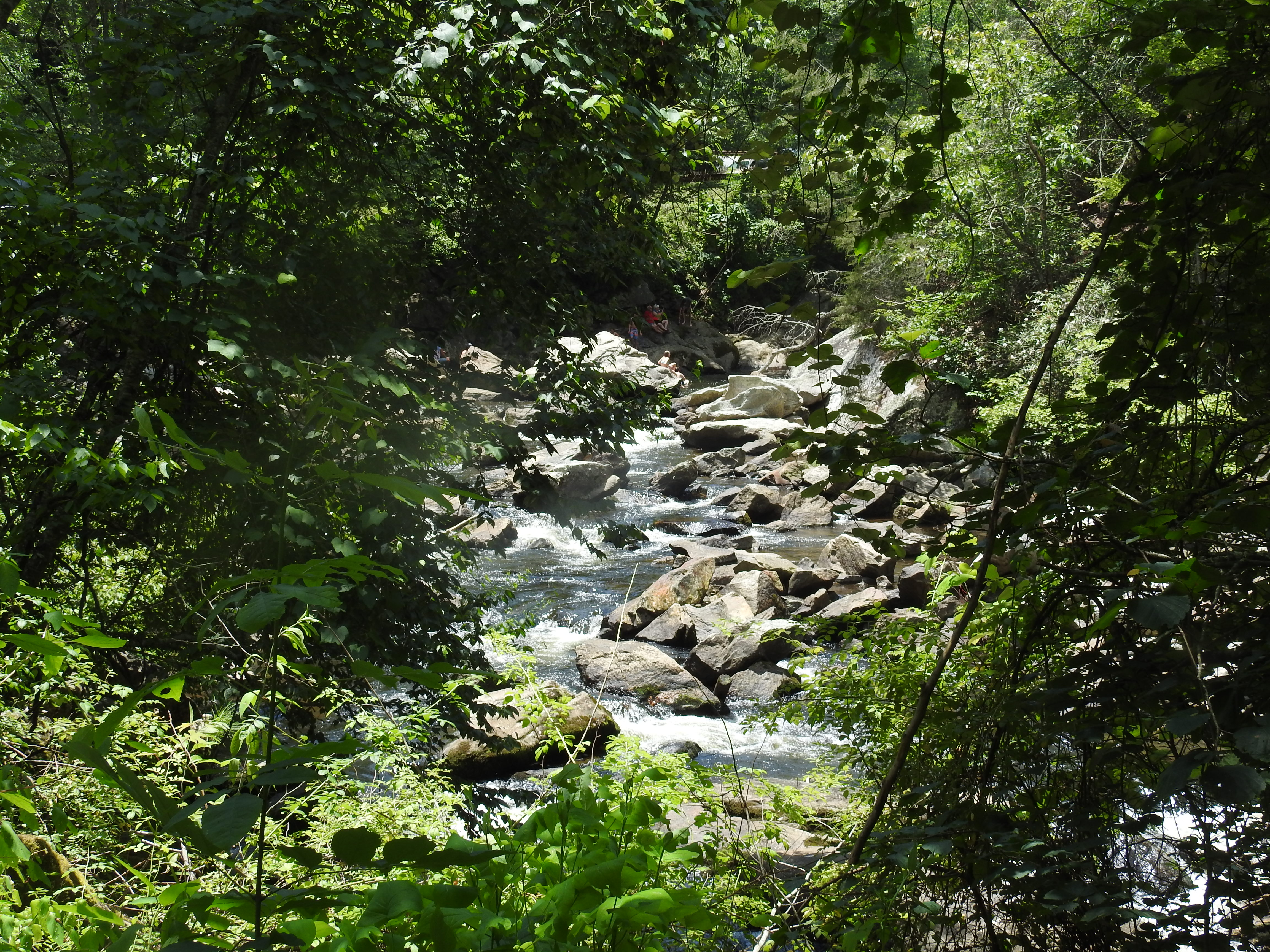 Cullasaja River near Highlands, Macon County, North Carolina